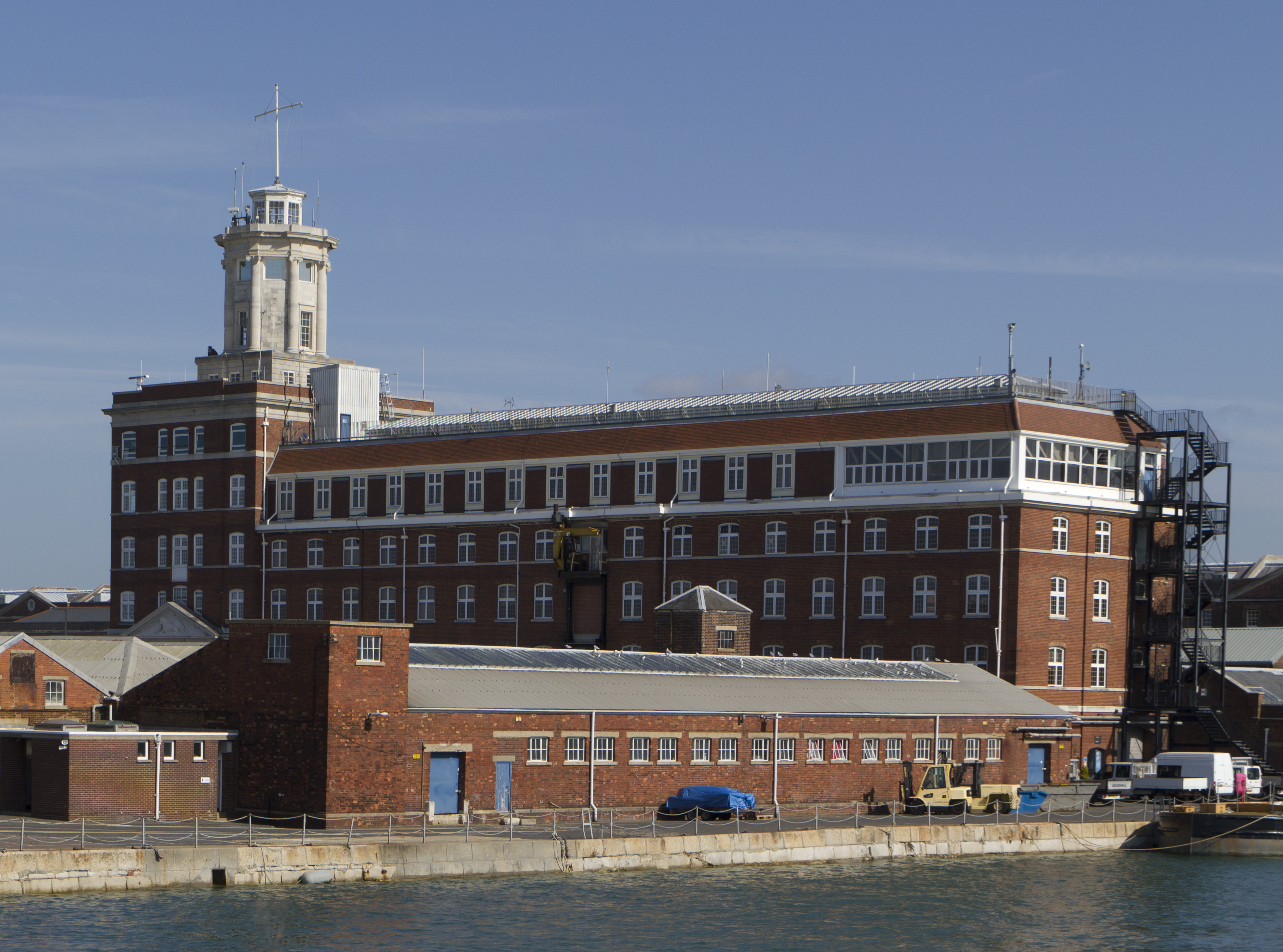 Portsmouth Harbour